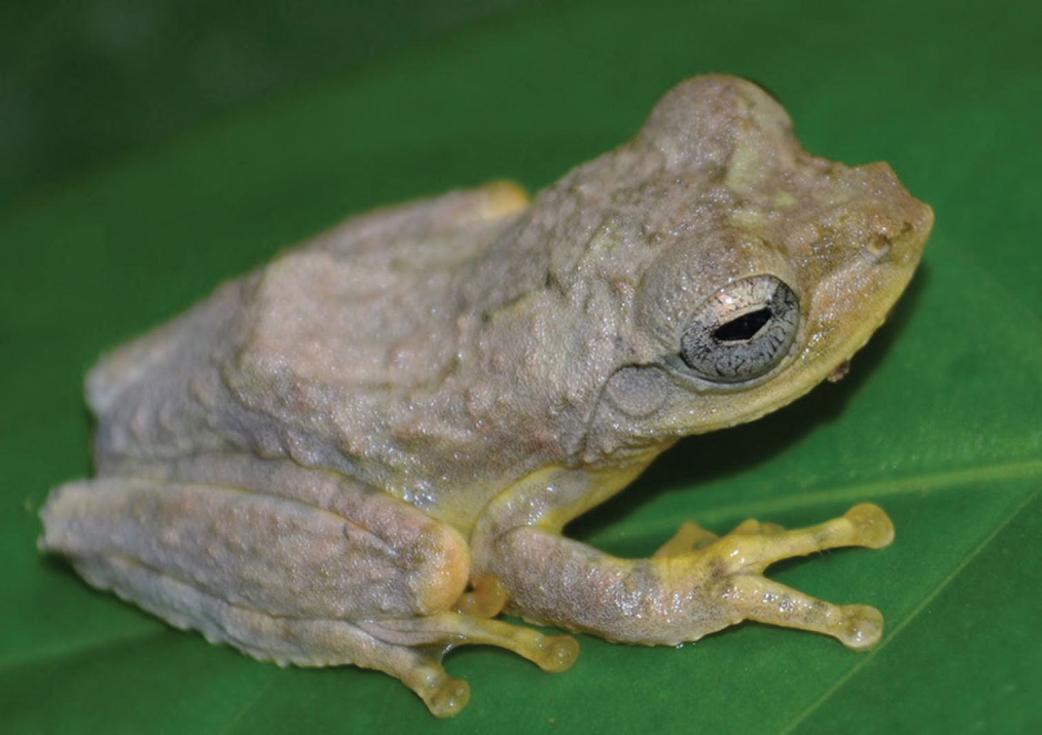 Rhacophorus appendiculatus (KU 330228) from the forest in the crater of Mt. Cagua. Photo: JS.